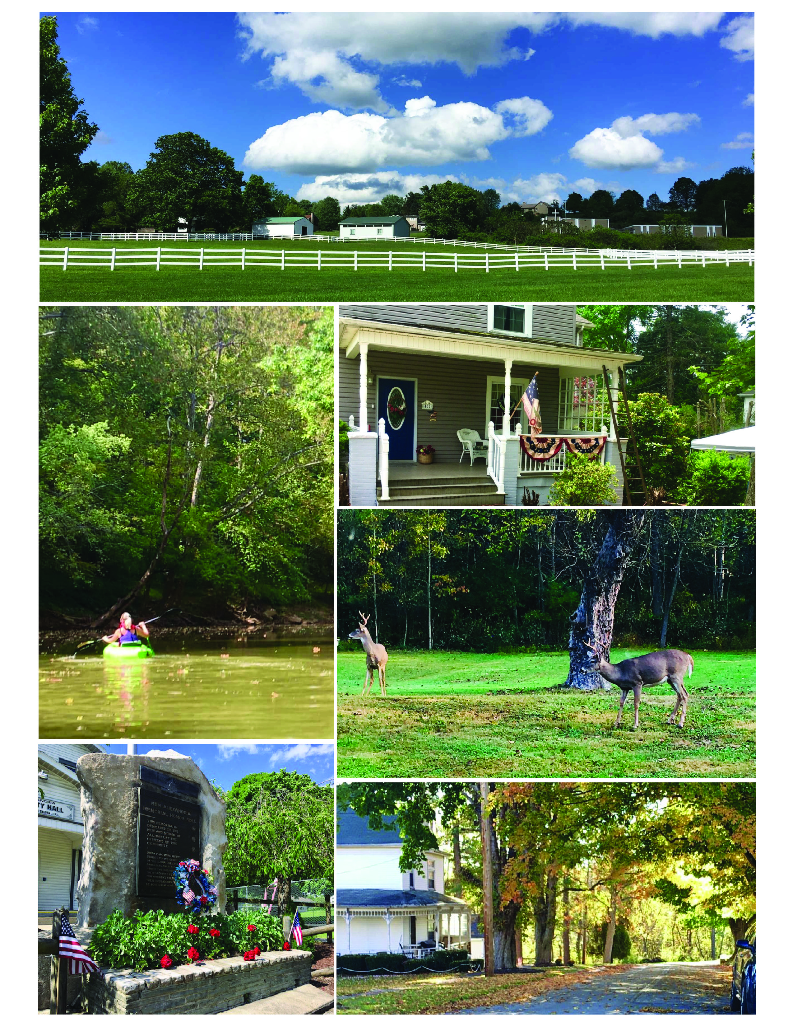 Main Street in New Alexandria, Pennsylvania